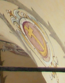 Szeliga coat of arms in Baranow-Sandomierski castle. Detail of Image:Baranów Sandomierski - castle 03.JPG full resolution, by User:Piotrus and tagged with the same “self2.GFDL.cc-by-sa-2.5,2.0,1.0” license.